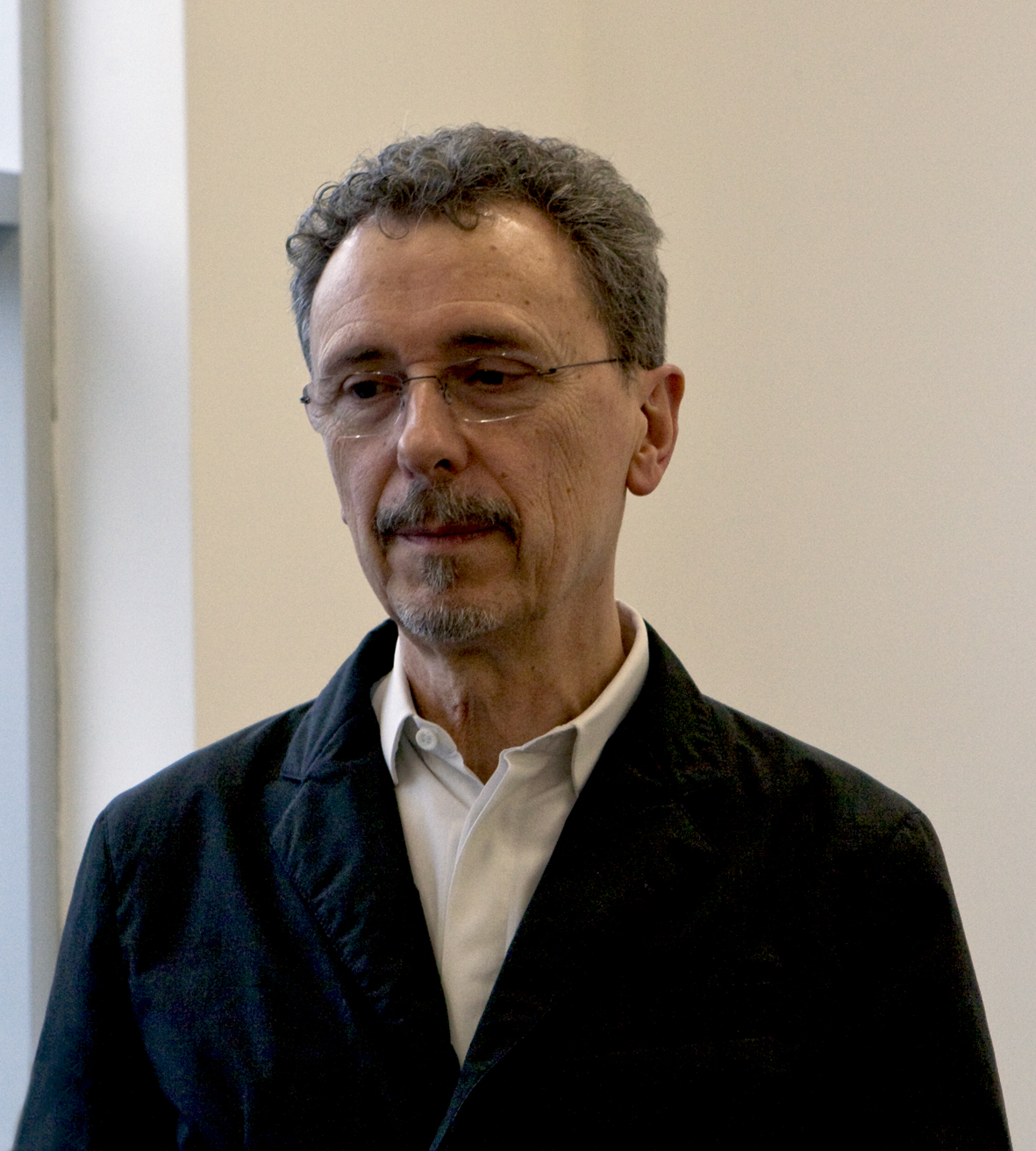 Victor Burgin at Gallery Thomas Zander, Cologne, Germany, 2010